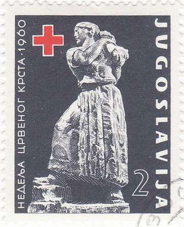 Sculpture by L. Dolinar.